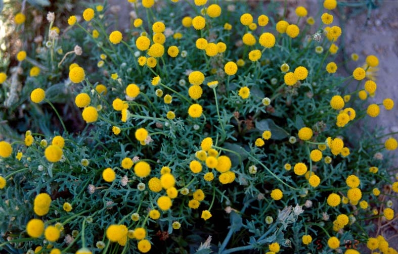 באדיבות Abdulrahman Alsirhan Yes you can, as long as I am credited for the photographs. Sincerely yours, Abdulrahman Alsirhan P.O. Box 49272 Omariya, Kuwait 85153 ??????? Abdulrahman Alsirhan Yes you can, as long as I am credited for the photographs. Sincerely yours, Abdulrahman Alsirhan P.O. Box 49272 Omariya, Kuwait 85153